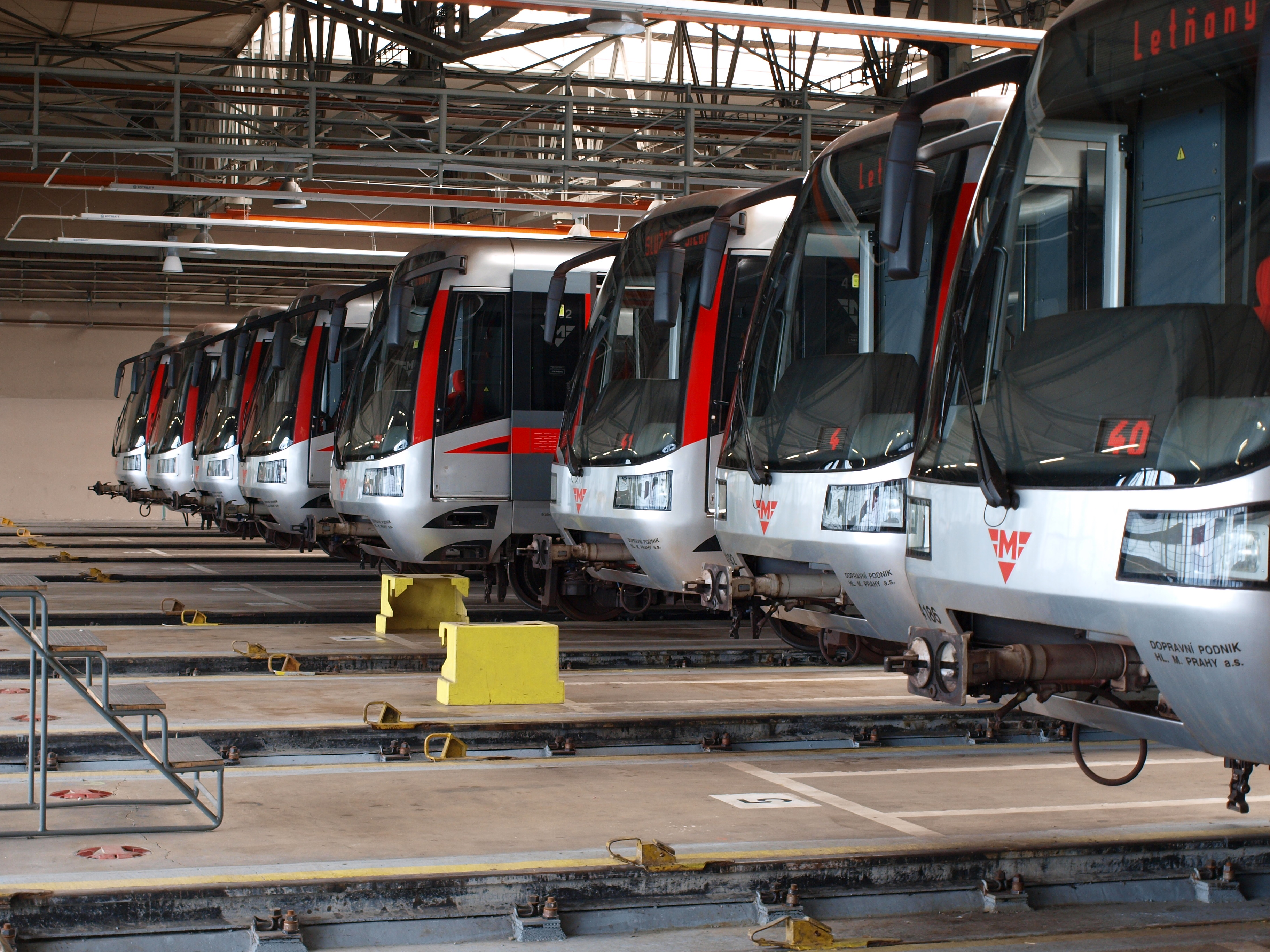 M1 multiple unit, Prague Metro, Kačerov depot.